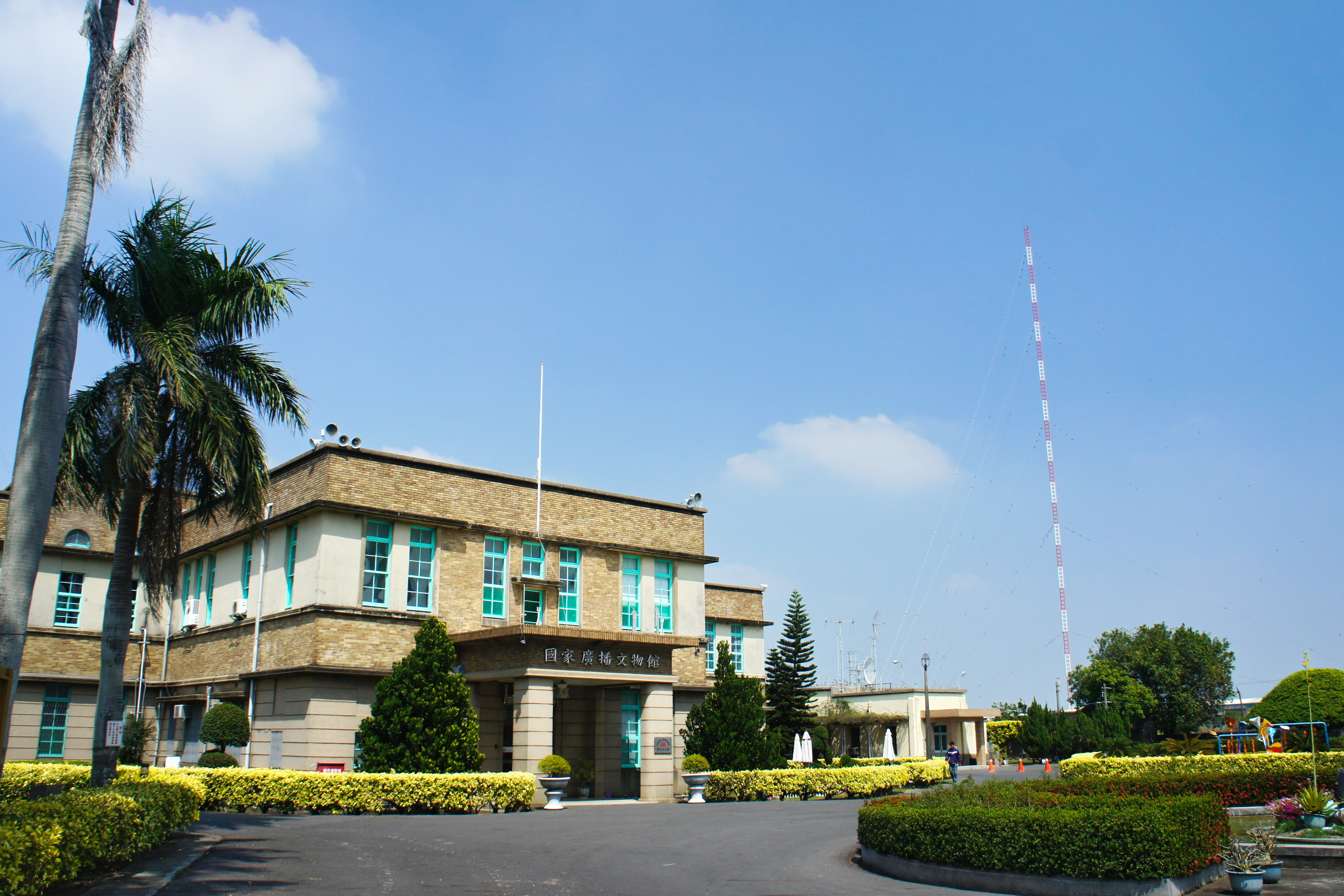 National Radio Museum, Minxiong, Chiayi, Taiwan.